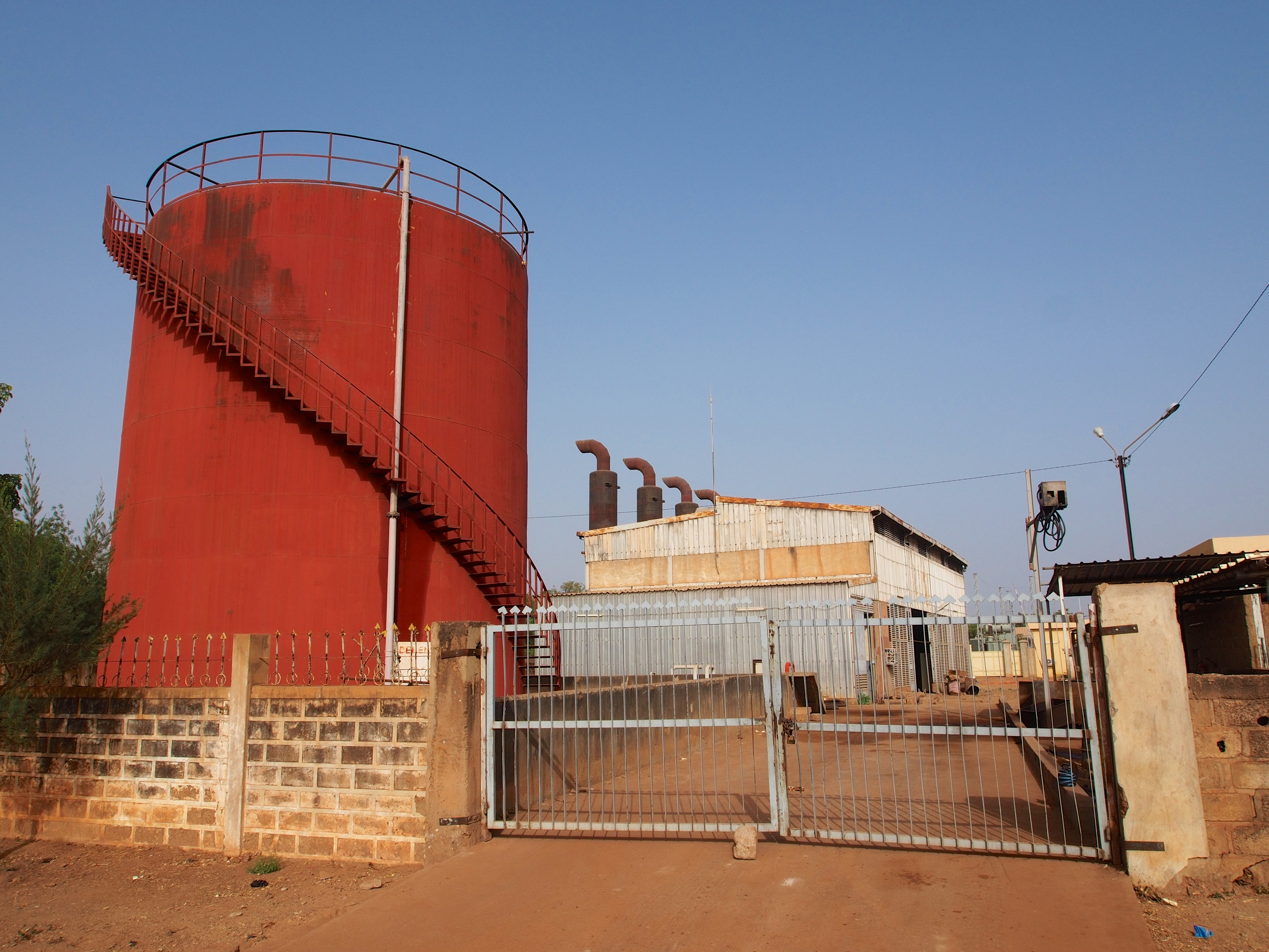 The fuel powered power plant Ouaga II, operated by SONABEL at Paspanga, Ouagadougou